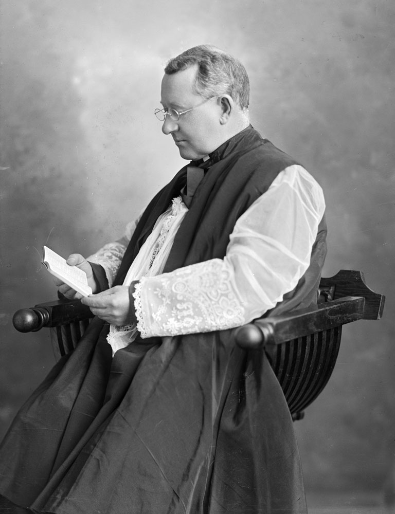 James Byrne (later Roman Catholic Bishop of Toowoomba), circa 1920